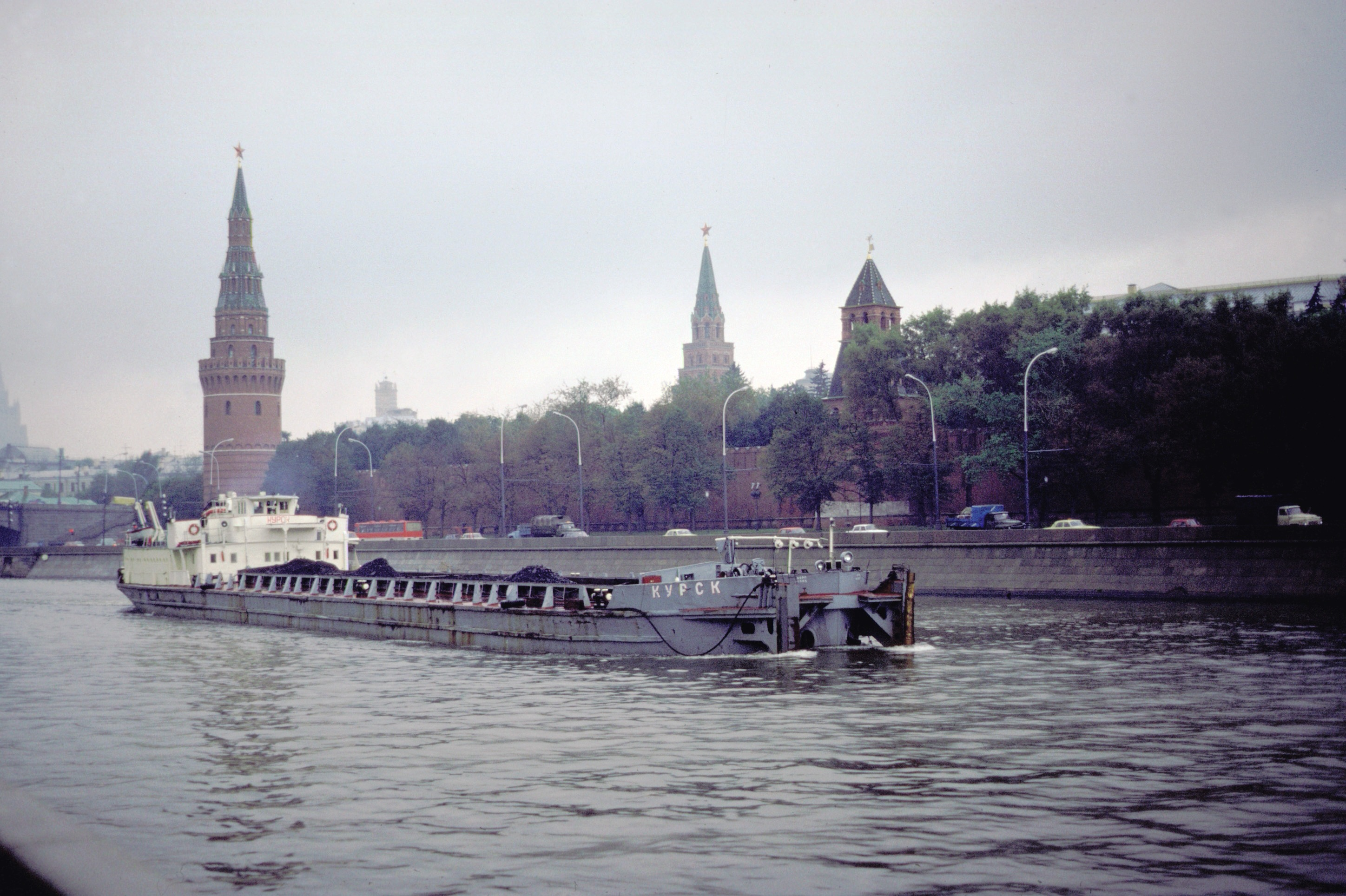 A view of barge traffic along the Moscow River. A portion of the Kremlin Wall is visible in the background.